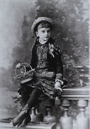 Portrait of Inessa Armand (1874-1920)